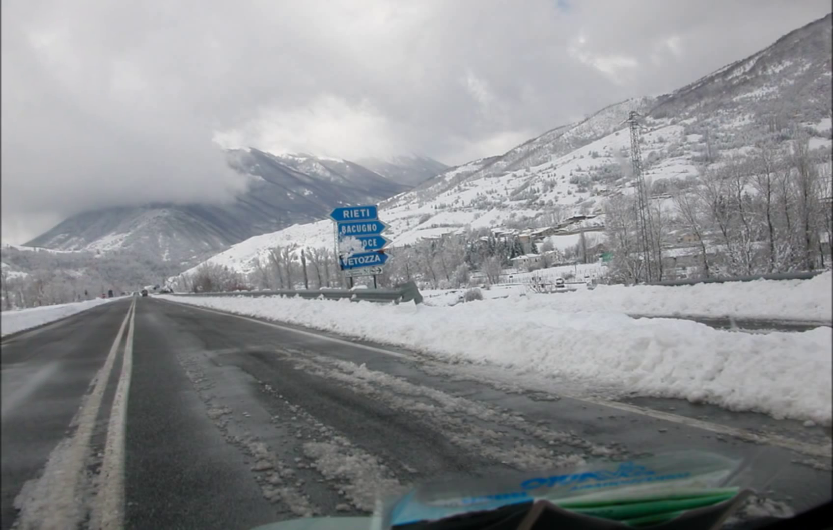 Picture taken on State Road n. 4 "Via Salaria", from the moving car.